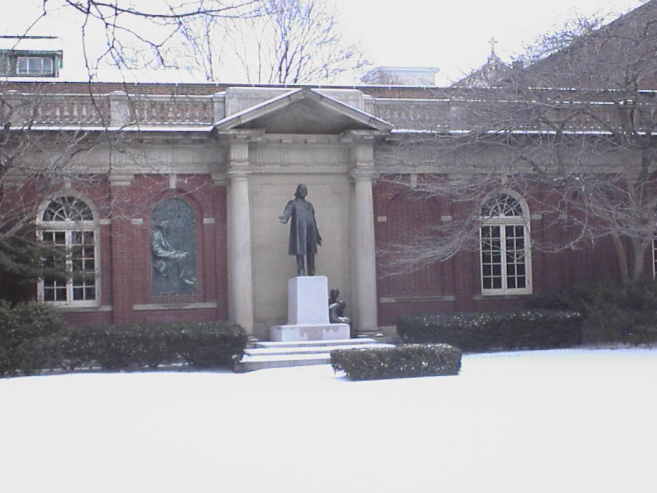 Plymouth Church of the Pilgrims. Orange Street, Brooklyn Heights NY. March 17, 2007.